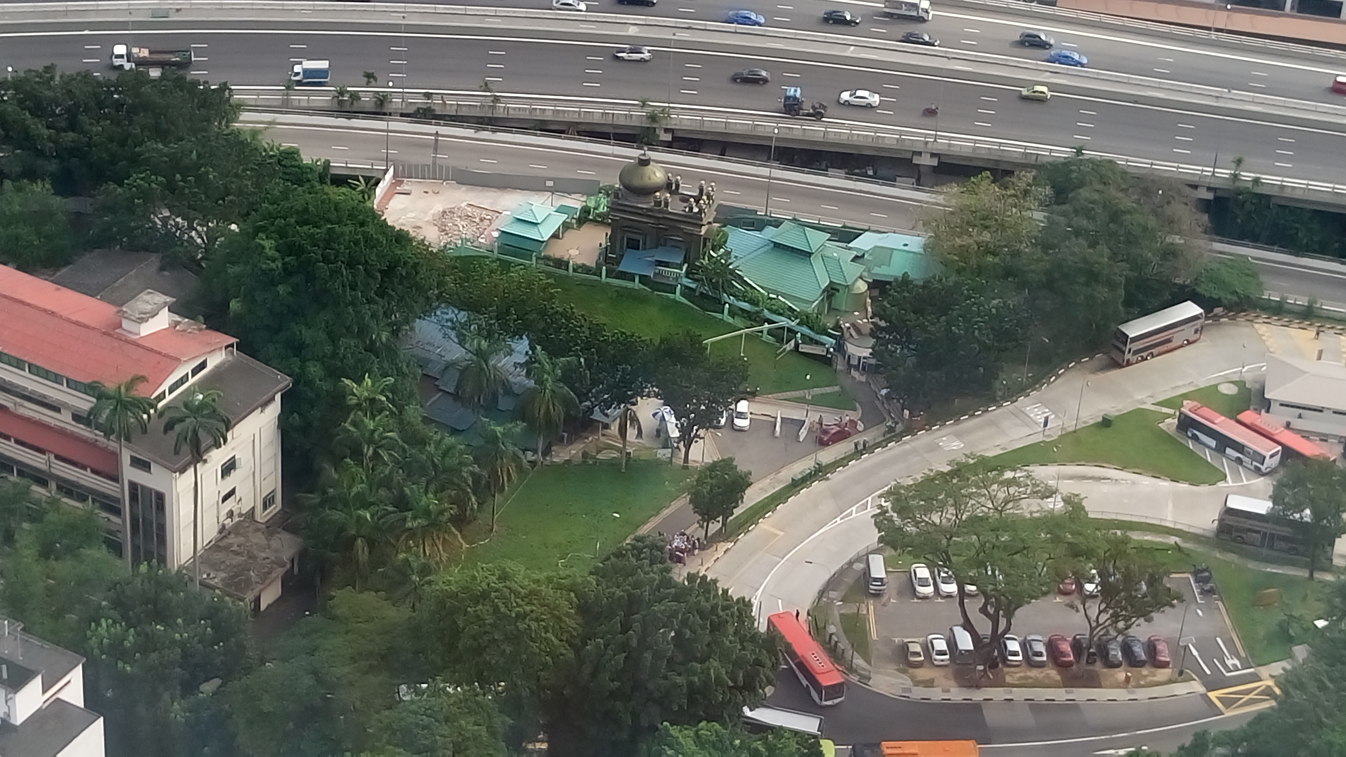 Makam Habib Noh, a Muslim mausoleum, and Haji Muhammad Salleh Mosque, Singapore, next to it. They are located on the hill between Palmer Road and the East Coast Parkway.